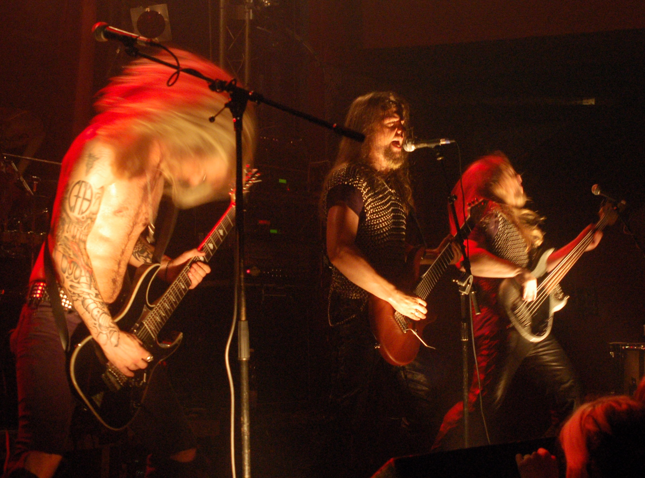 Viking Metal group Týr of the Faroe Islands in Hamburg